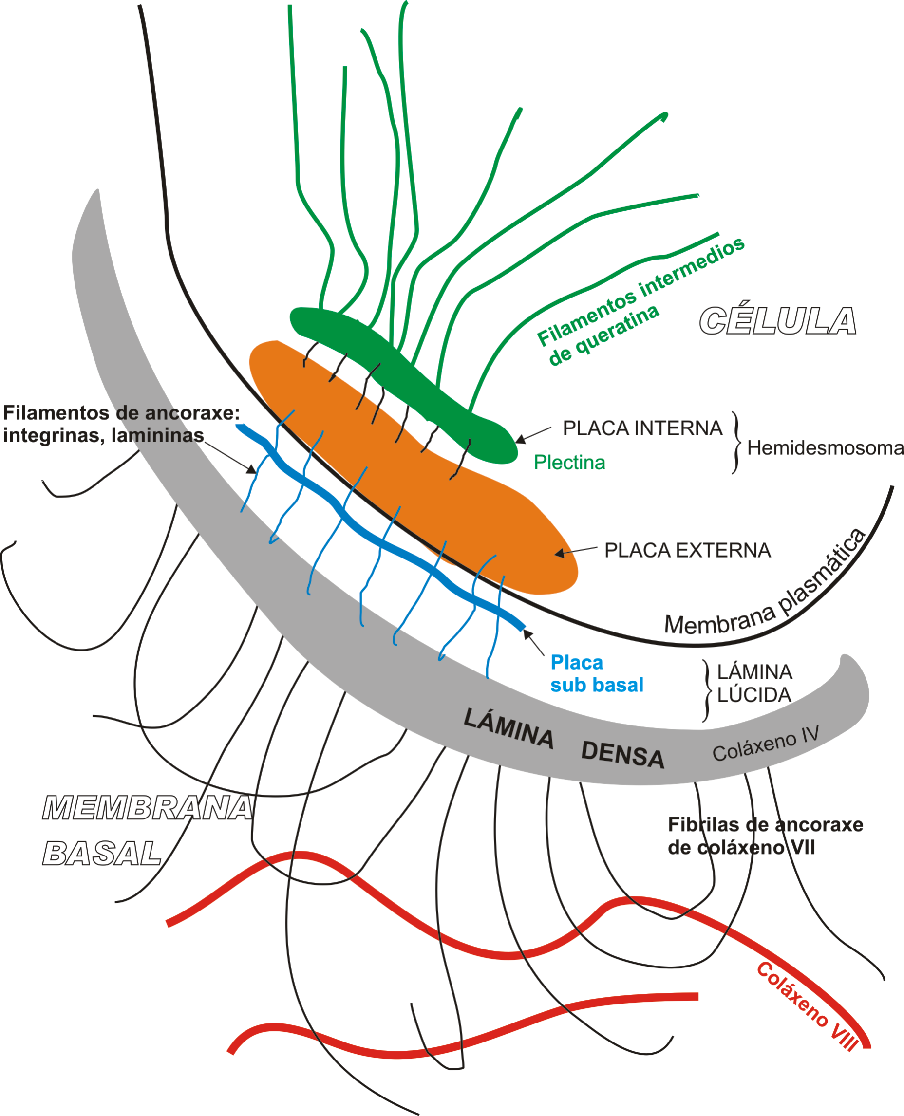 hemidesmosome diagram